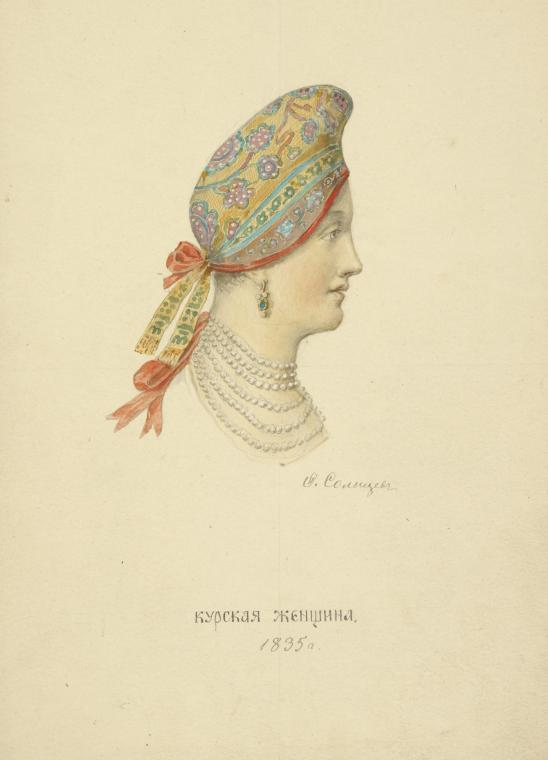 Ochipok